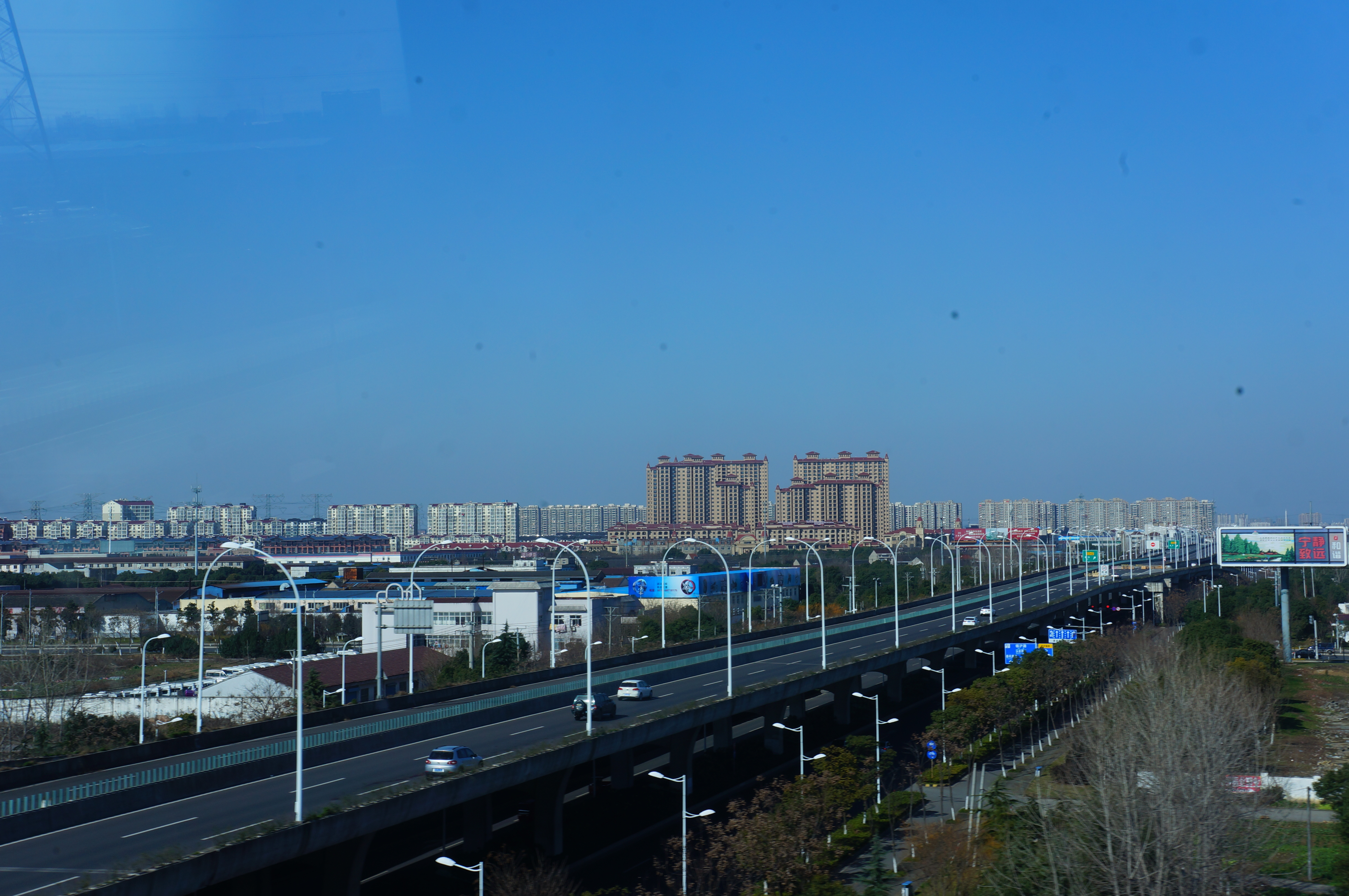 201701 Zhaqiao Wuxi, Metro Zhaqiao Station is way far to the real Zhaqiao